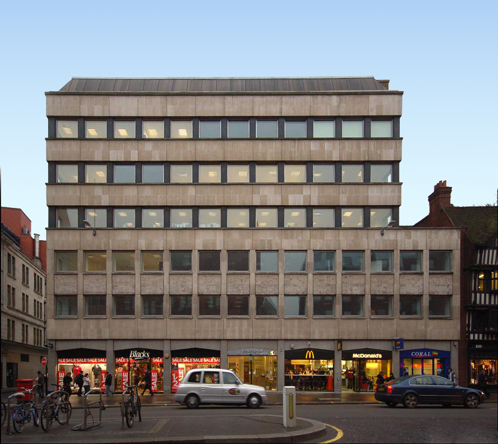 Former LSBF Chancery Lane 2 Campus